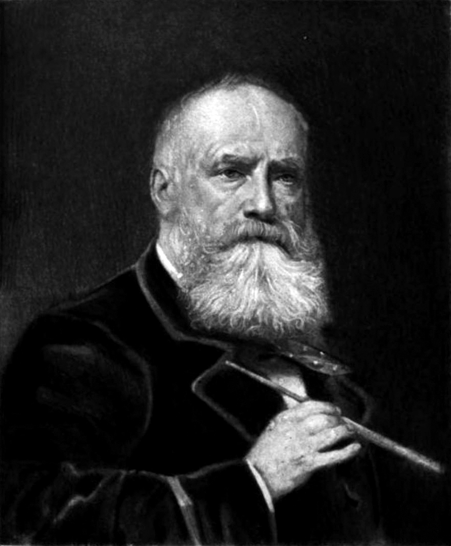 Self-portrait of French painter Adolphe Yvon (1817-1893)